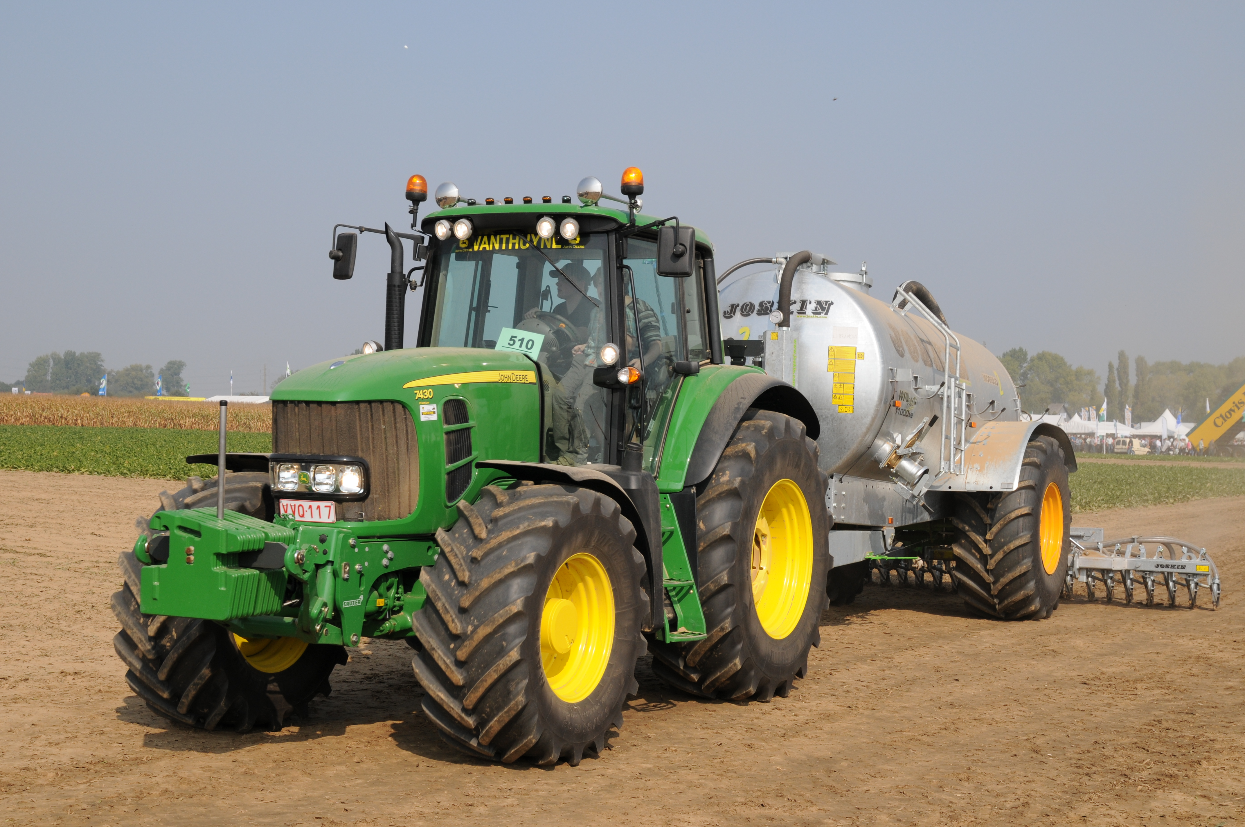 John Deere 7430 with Joskin liquid manure trailer at Werktuigendagen 2009